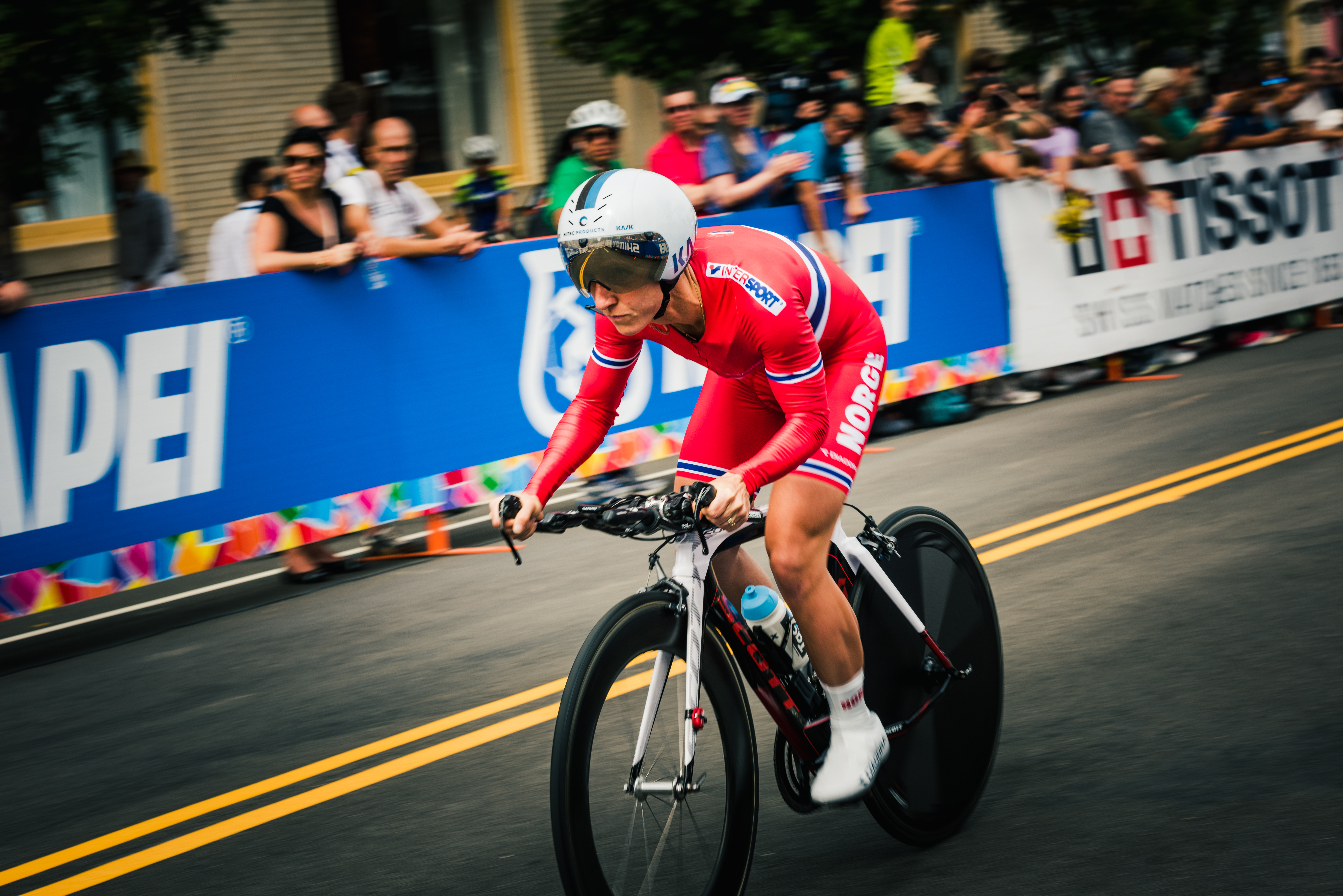 UCI Bike Race 2015 Richmond, VA 2015 UCI Road World Championships – Women's time trial in Richmond, USA